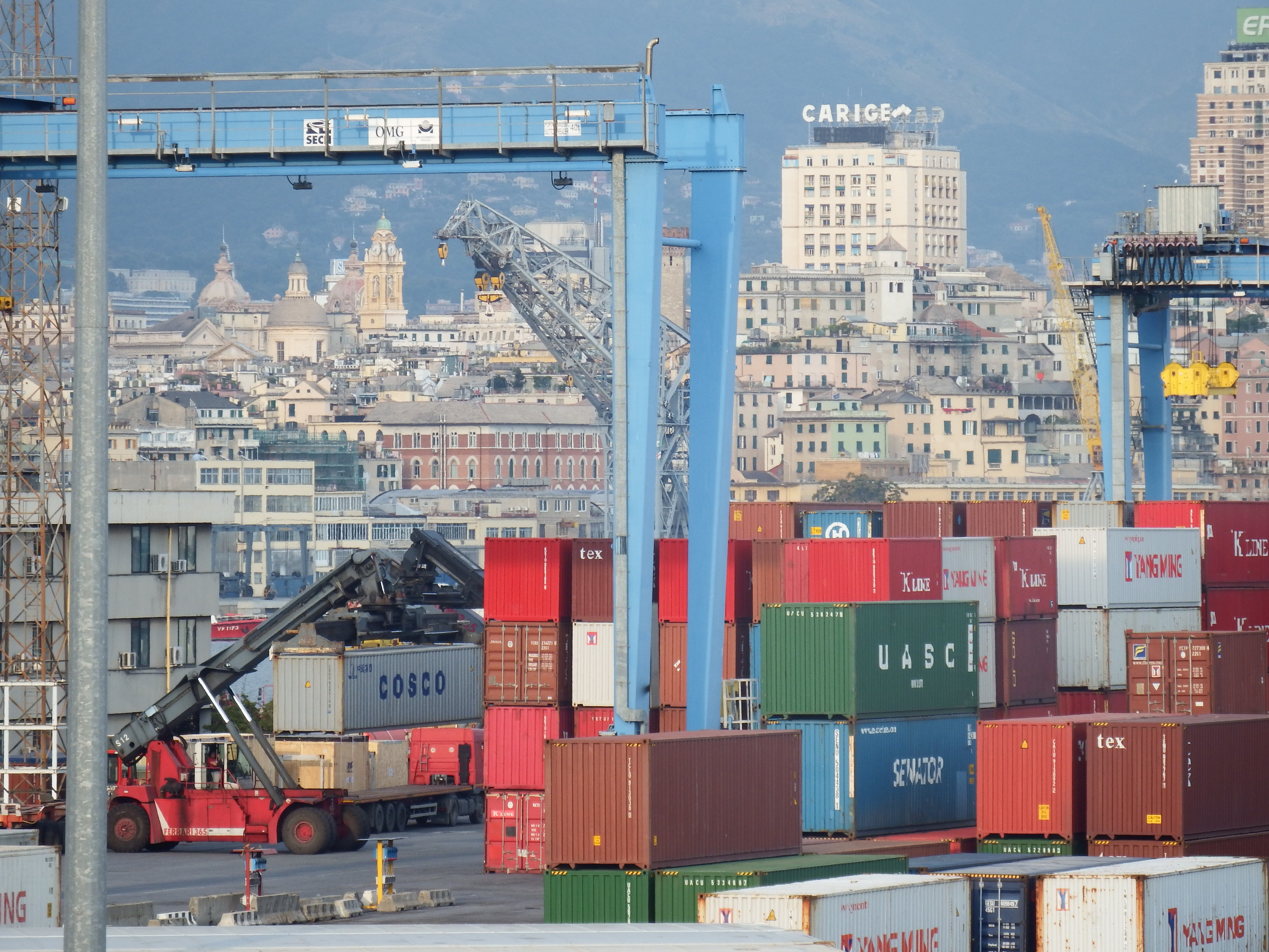 Container moving inside SECH container terminal in Genoa